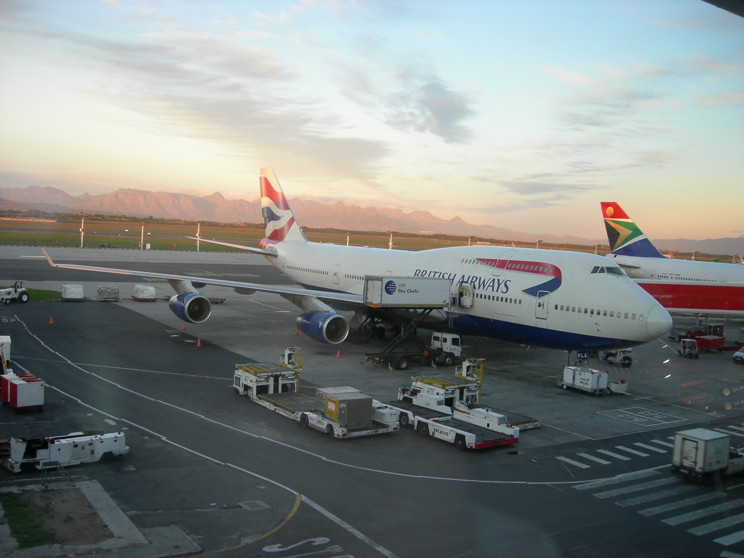 British Airways Boeing 747-400 parked at Cape Town International Airport